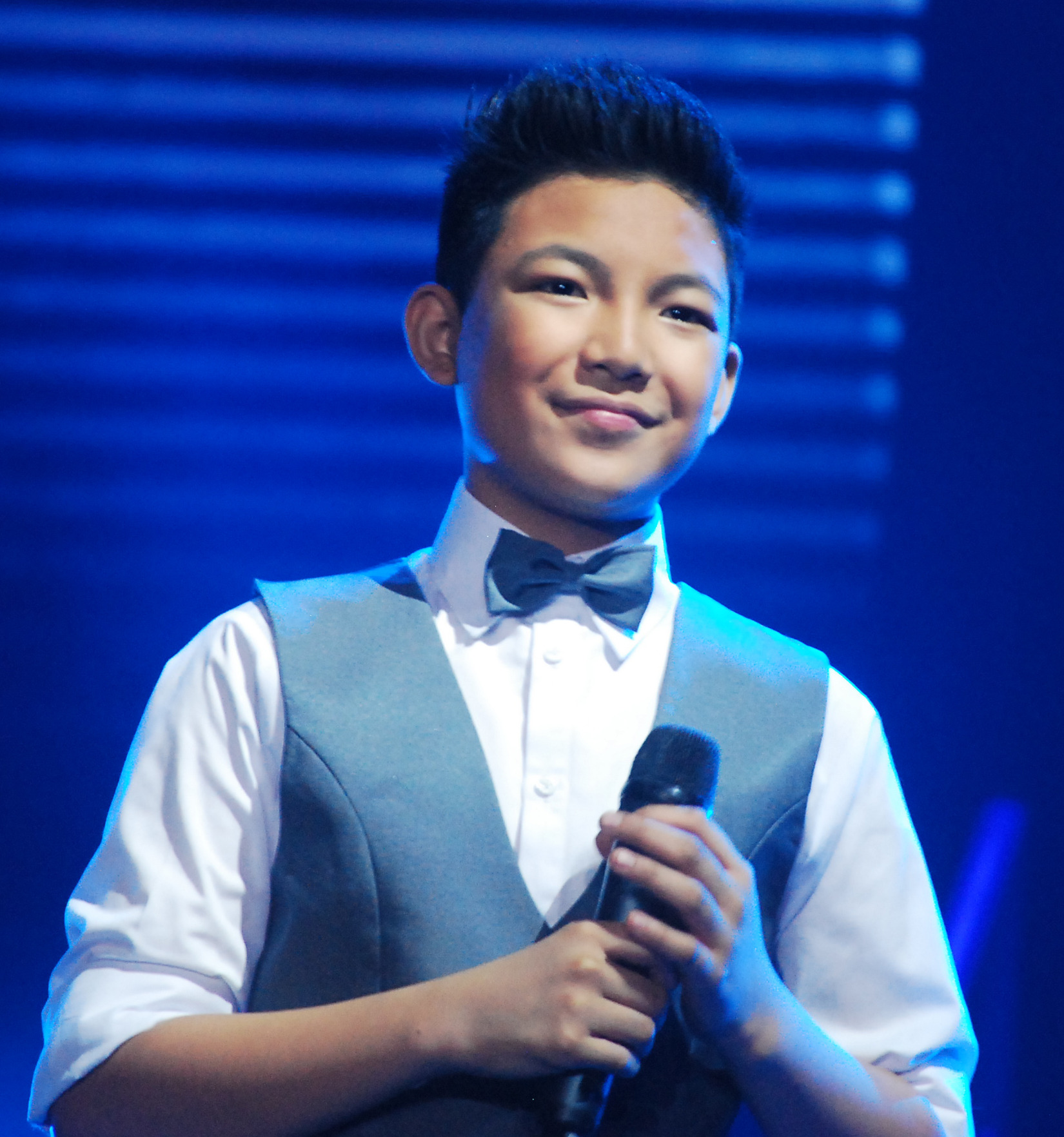 Darren Espanto during his birthday concert at the Mall of Asia Arena on 29 May 2015. Photo taken by the author's cousin.